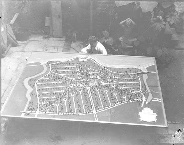 New Orleans, 1936: "The Lakefront Development, carried on WPA under Levee Board sponsorship, will look like this map-relief model whem completed." Shows man looking over a relief map of the Lake Vista neighborhood.